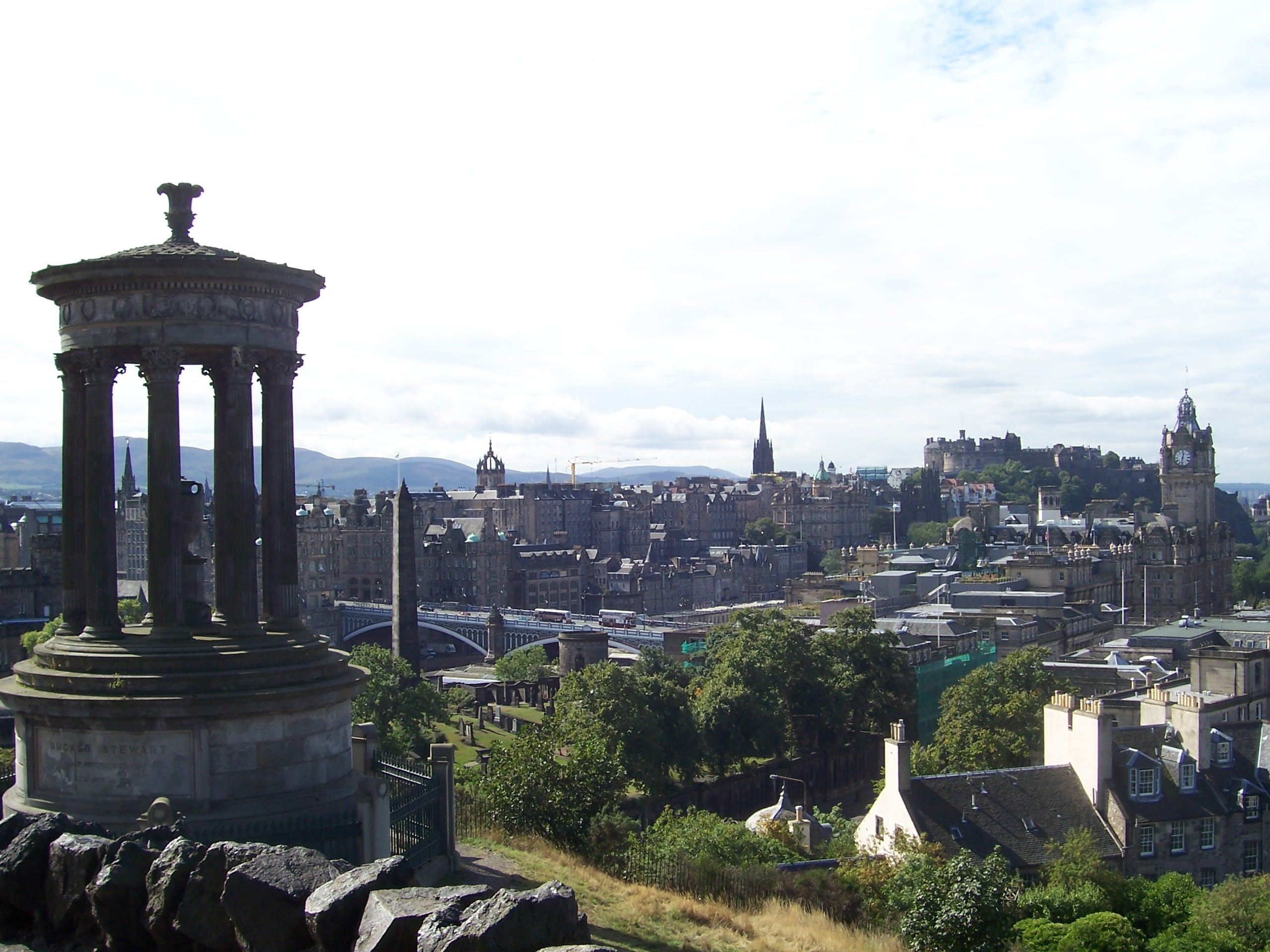 Edinburgh View From Calton Hill